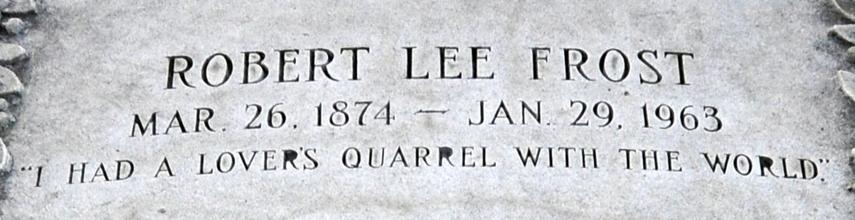 "I had a lover's quarrel with the world.": epitaph engraved on the tomb of Robert Frost at Bennington in Vermont, excerpt from his poem: "The Lesson for Today" (1942).